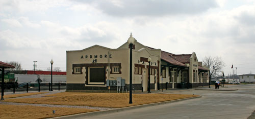 Ardmore station in March 2006